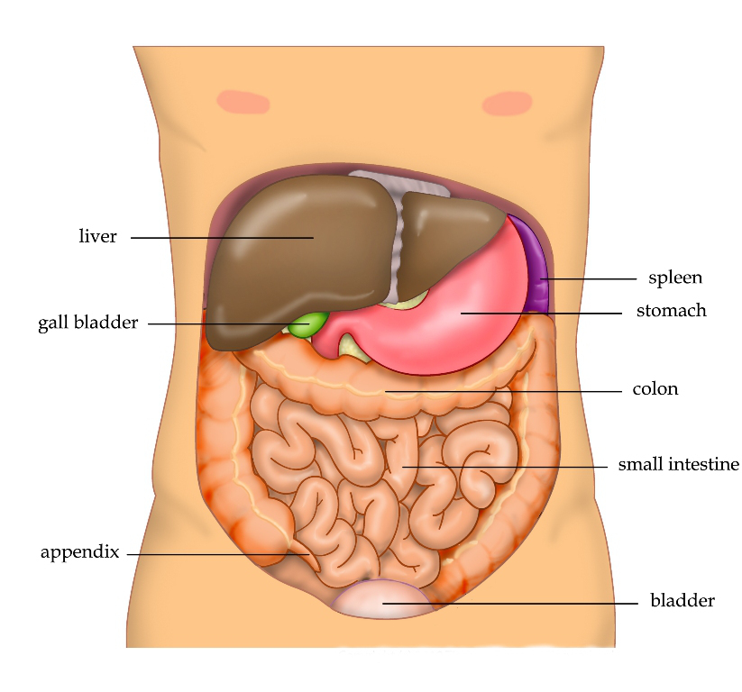 Anatomy of the human abdomen, by Ties van Brussel / tiesworks.nl